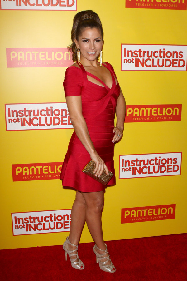 (Instructions not included)